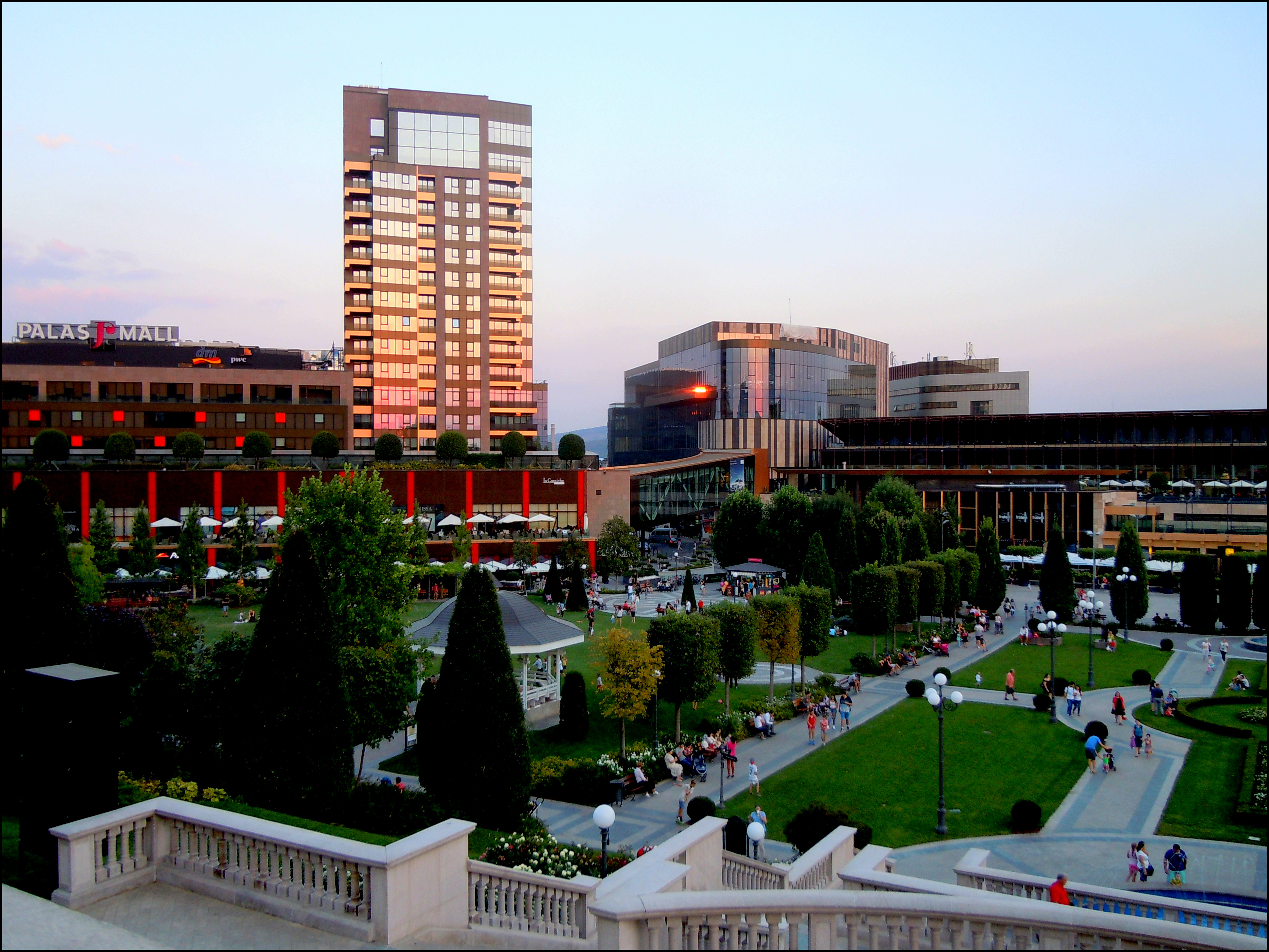 Public Garden Palas, Iaşi ,Romania